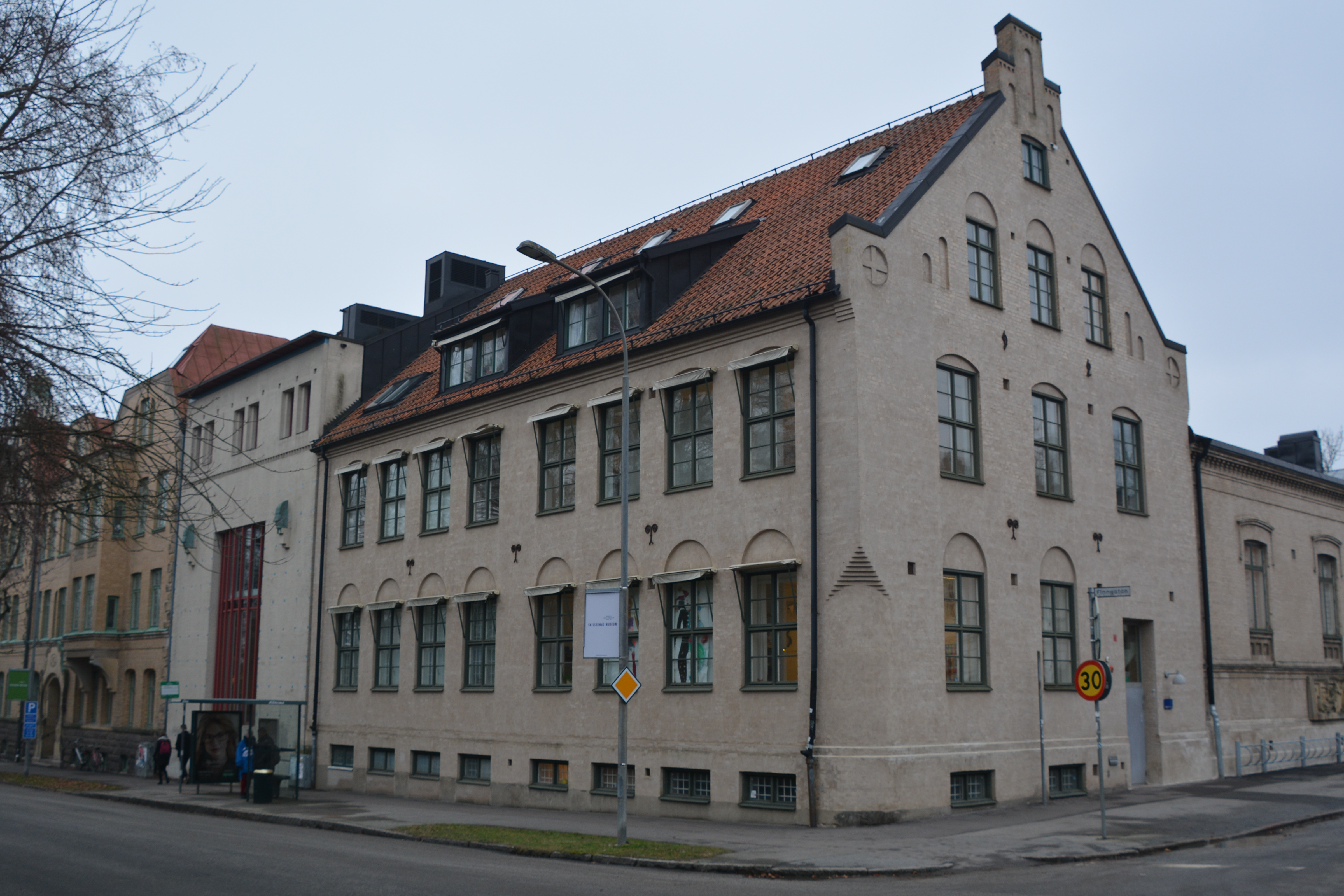 Skissernas museum. Fasaderna mot Sölvegatan